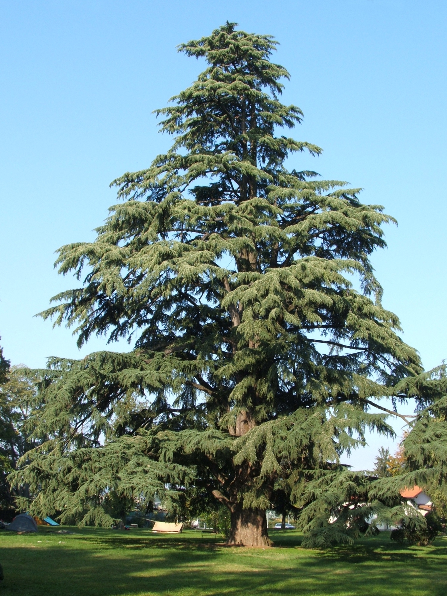 Cedrus deodara. Photo taken in Pedrengo, Bergamo, Italy. The tree is 35 meters high.